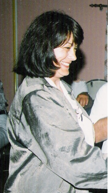 Greek politician Maria Arseni